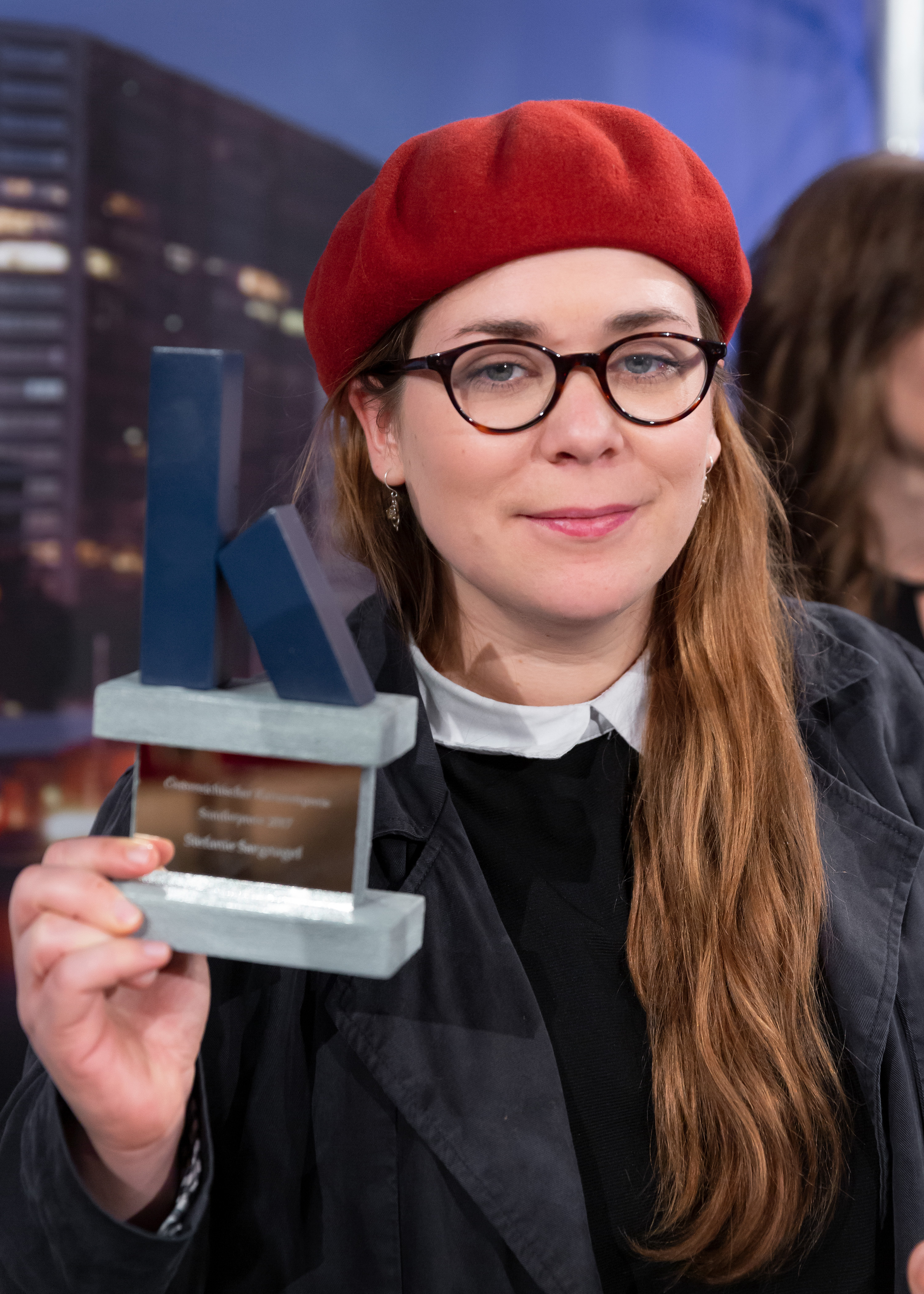 Stefanie Sargnagel, Austrian Cabaret Award 2017 at Urania in Vienna, Austria.